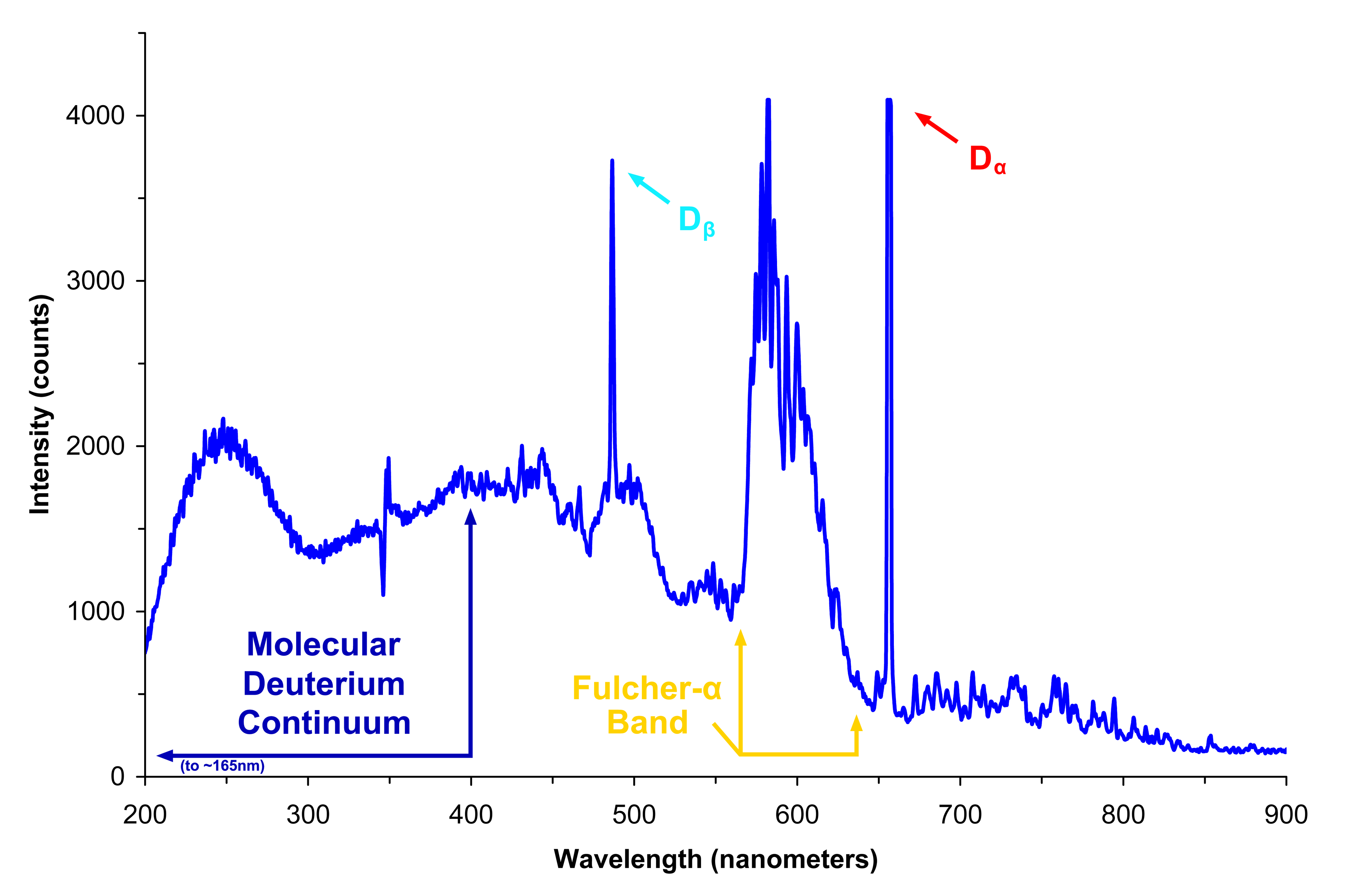 Spectrum of a deuterium lamp taken by pointing the light input port (no fiber optic used) of an Ocean Optics HR2000 spectrometer [1] toward the light produced by an ocean optics deuterium lamp. Balmer lines are marked with a "D" since this is deuterium not hydrogen (deuterium alpha on the right at 656nm and the deuterium beta line on the left at 486nm. color of the text roughly corresponds to the color of the emitted light at these wavelengths.). The continuum emission on the far left from 400nm to 200 nm does not actually decrease in intensity from 250nm to 200nm and this is an artefact of the decreased CCD photodetector efficiency at those wavelengths. The continuum actually increases in intensity all the way down to about 165nm where the lyman band then dominates emission at lower "vacuum UV" wavelengths. Note that the tallest peak of the Fulcher band and the D-alpha line are saturated to show more detail on less intense lines. Spectrum interpretation was done using information of balmer line location, hydrogen emission continuum information found at [2][3] and Fulcher band emission information found at [4]. This spectrum is not calibrated for intensity. Spectrum taken by me.